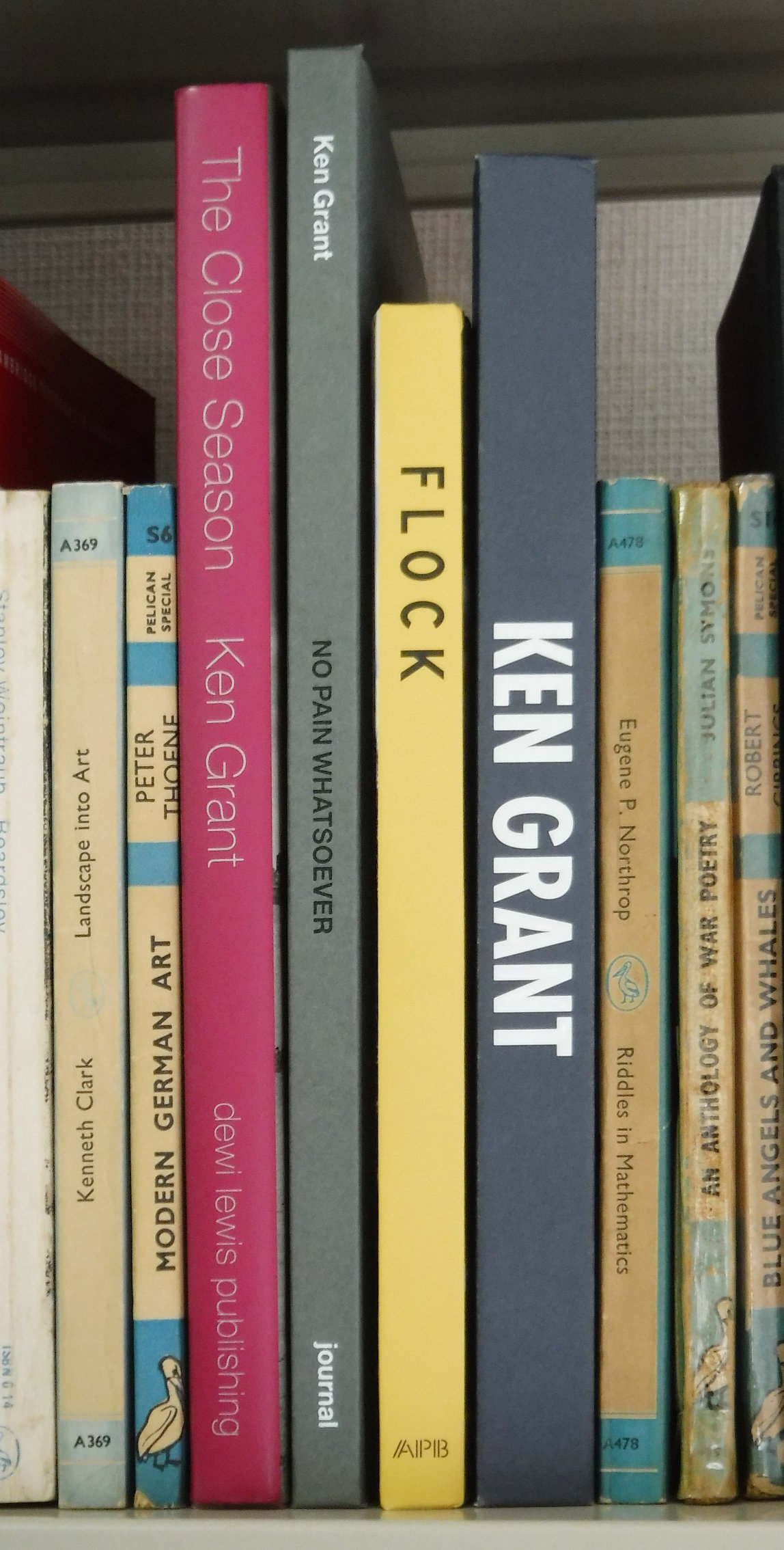 Four photobooks by Ken Grant: The Close Season, No Pain Whatsoever, Flock, A Topical Times for These Times